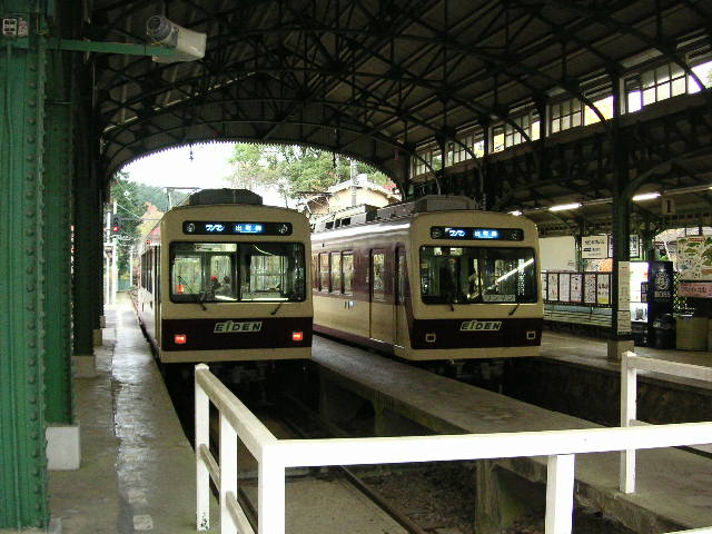 Eizan Electric Railway Yase Hienzanguchi Station platforms